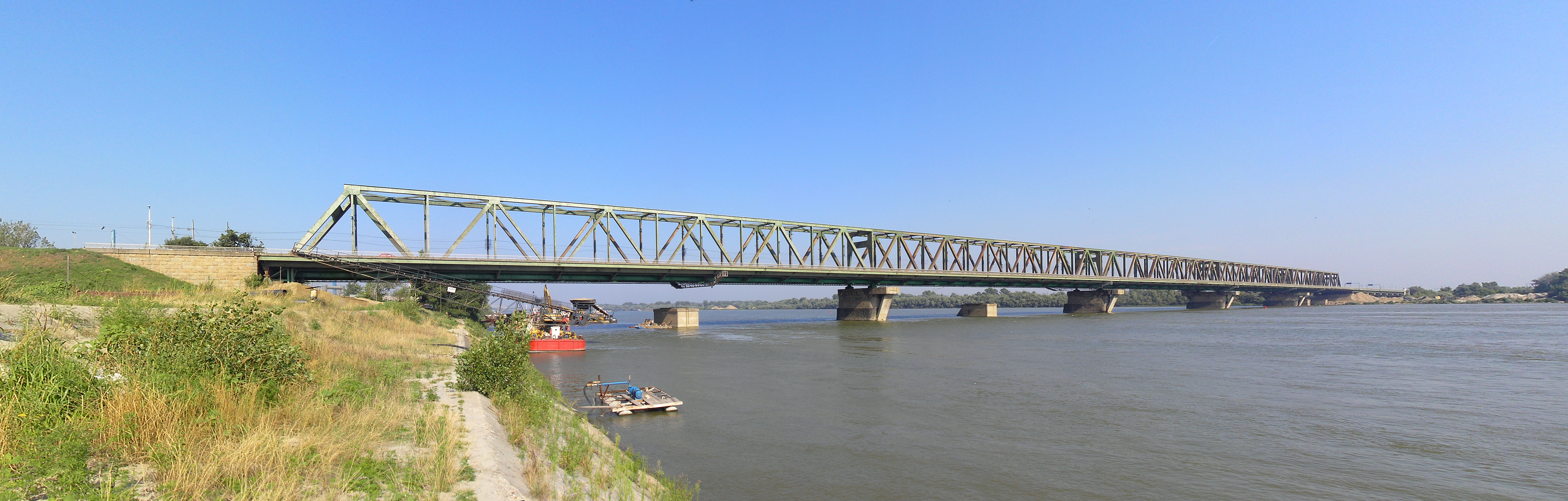 A panorama of Pančevo bridge, Belgrade, Serbia. The panorama is featuring upstream view of the bridge, from the right Danube riverside. Brought together with hugin, finalized with gimp.